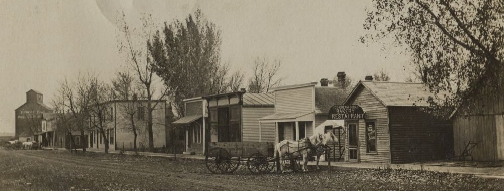 1910 postcard of Delhi, Minnesota, United States